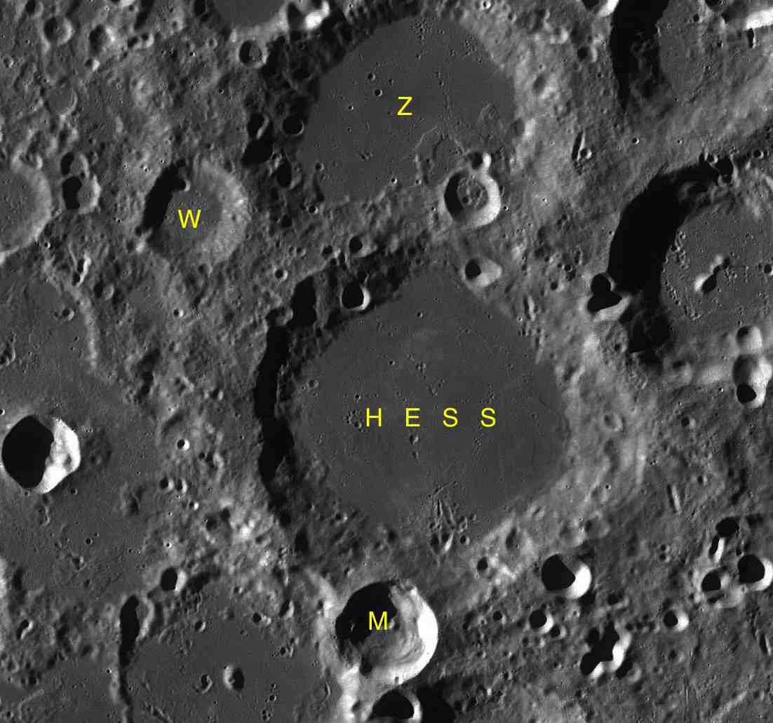 Part of the chart LAC-132 used for the presentation